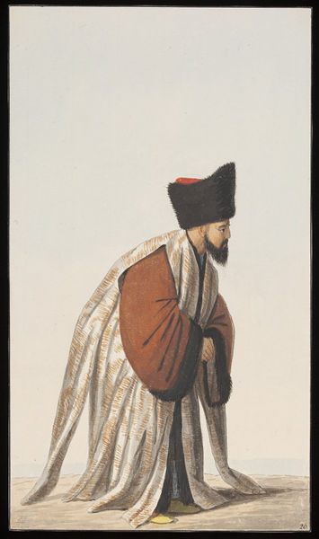 Dragoman, or Chief Interpreter